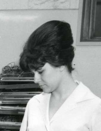 Note her beehive hairstyle, popular in the 1960s.